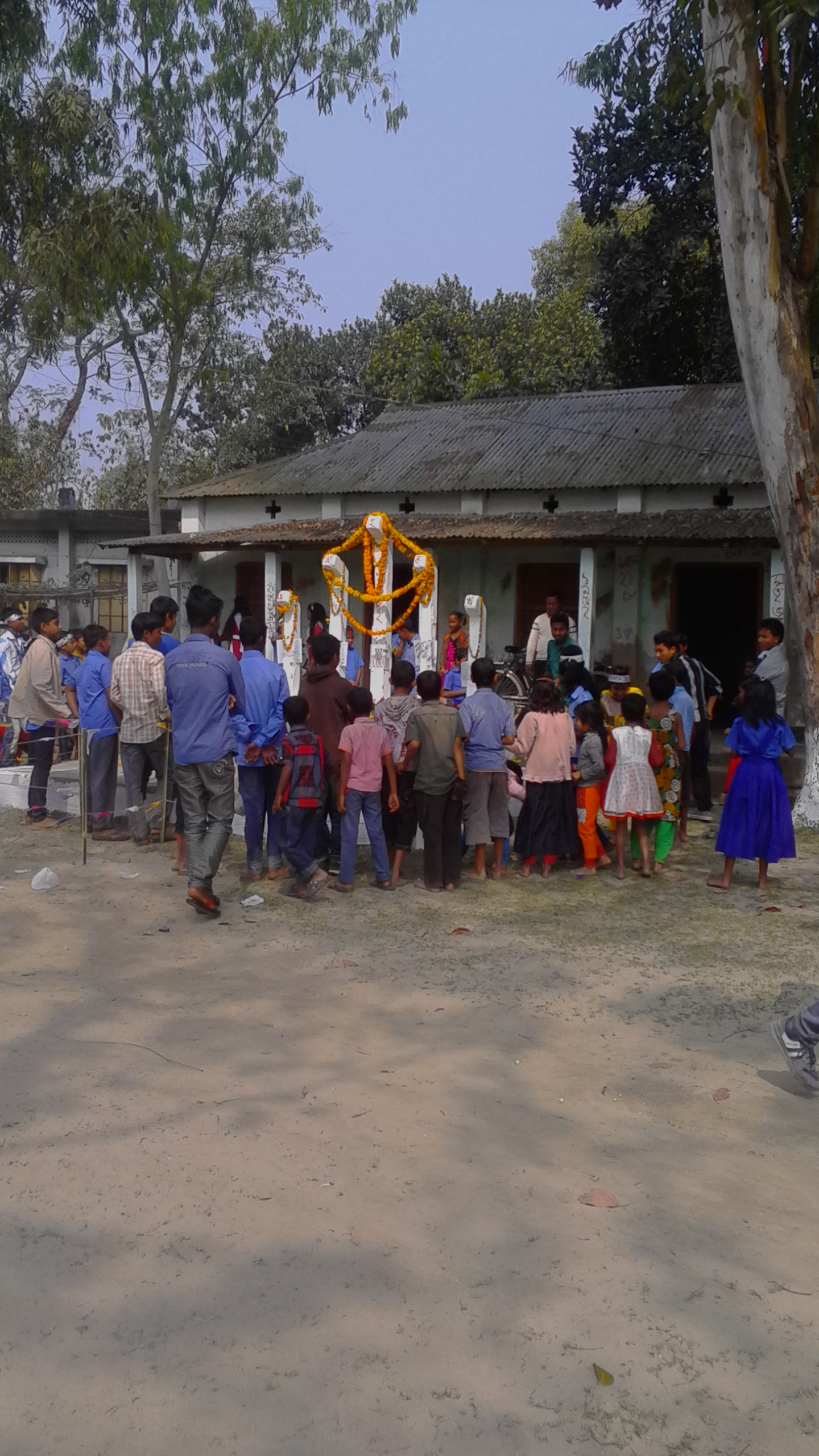 Shaheed Minar